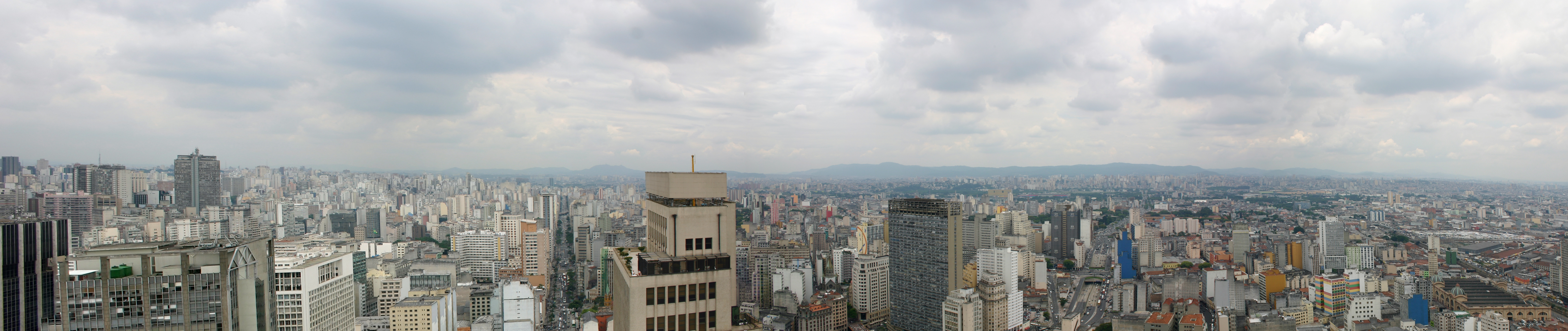 A stitch of about 10 or 12 different photos from the Altino Arantes Building in São Paulo.